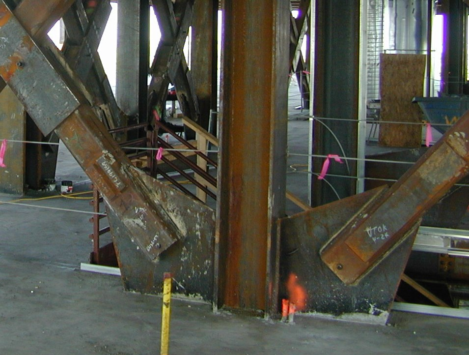 Structural Steel Braced Frame